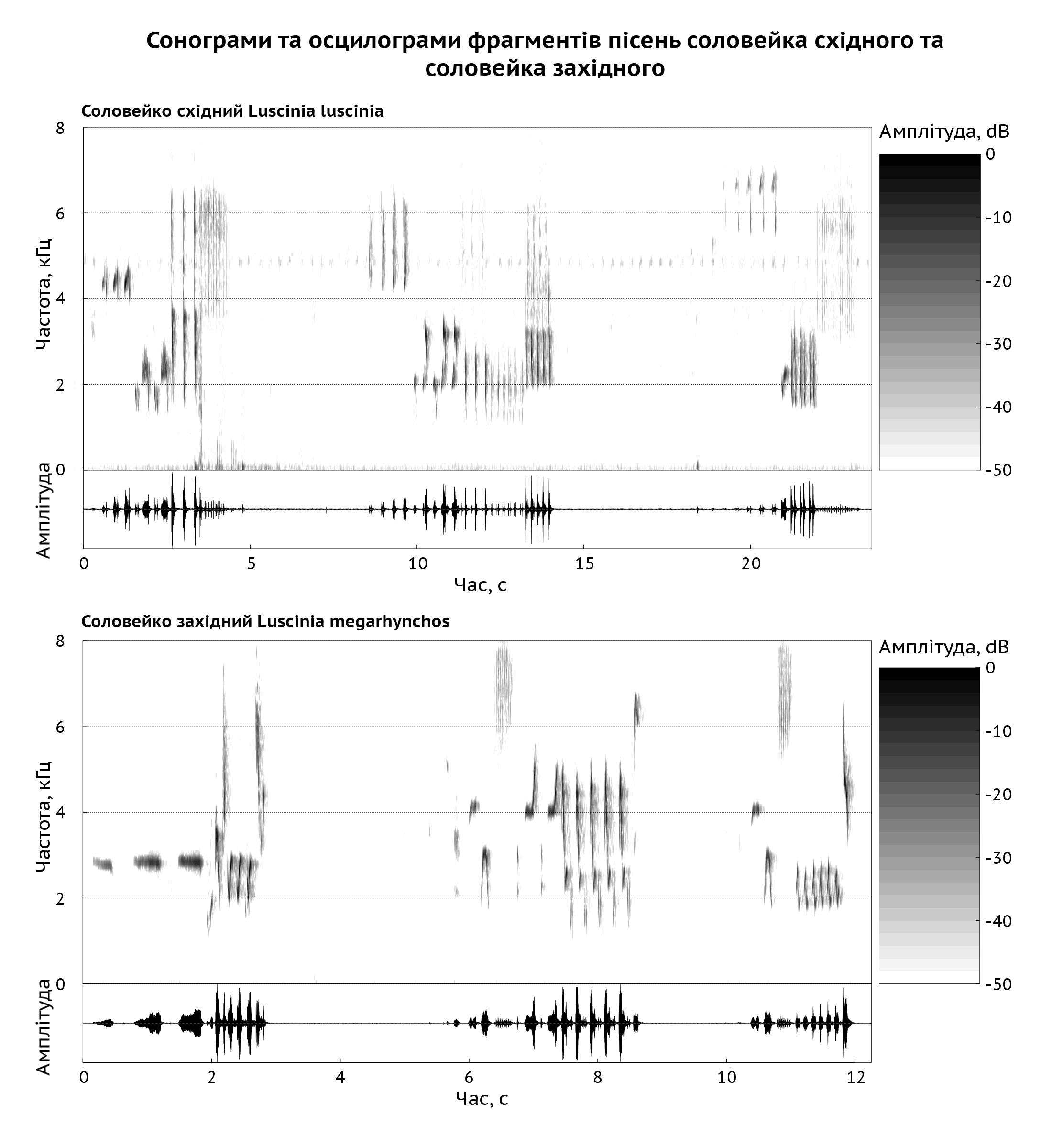 Bioacoustic methods in ornithology help to solve a wide range of problems, for example the distinction between similar species of birds or bird species with quite similar voices, for remote monitoring of populations etc. The sonograms of Thrush nightingale (Luscinia luscinia) and Common nightingale (Luscinia megarhynchos) singing help to distinguish these two species by voice definitely.